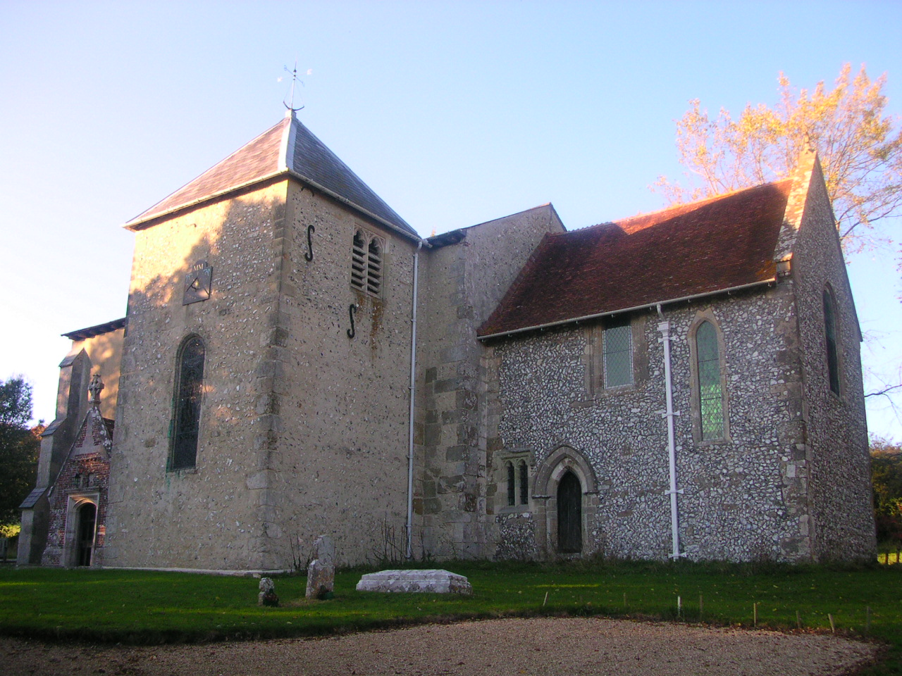 Stoughton Church, West Sussex, England. November 2007.